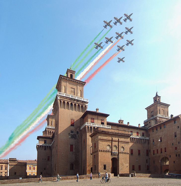 three-coloured arrows on the Estense castle, Ferrara